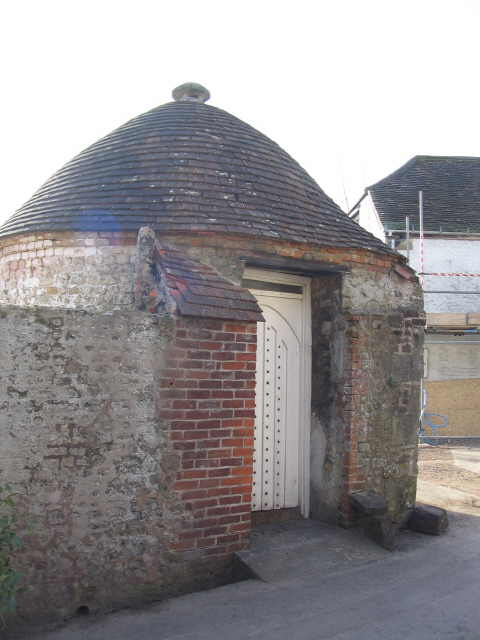 Entrance to the Blind House, Warminster A view looking to the south towards the entrance to the Blind House at Warminster.